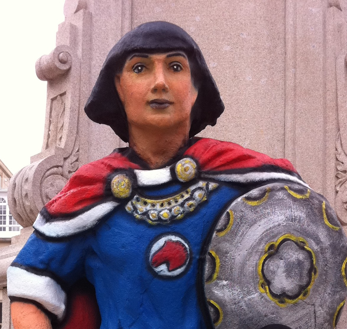 Statue of Prince Valiant at a comics salon in La Coruna, Spain